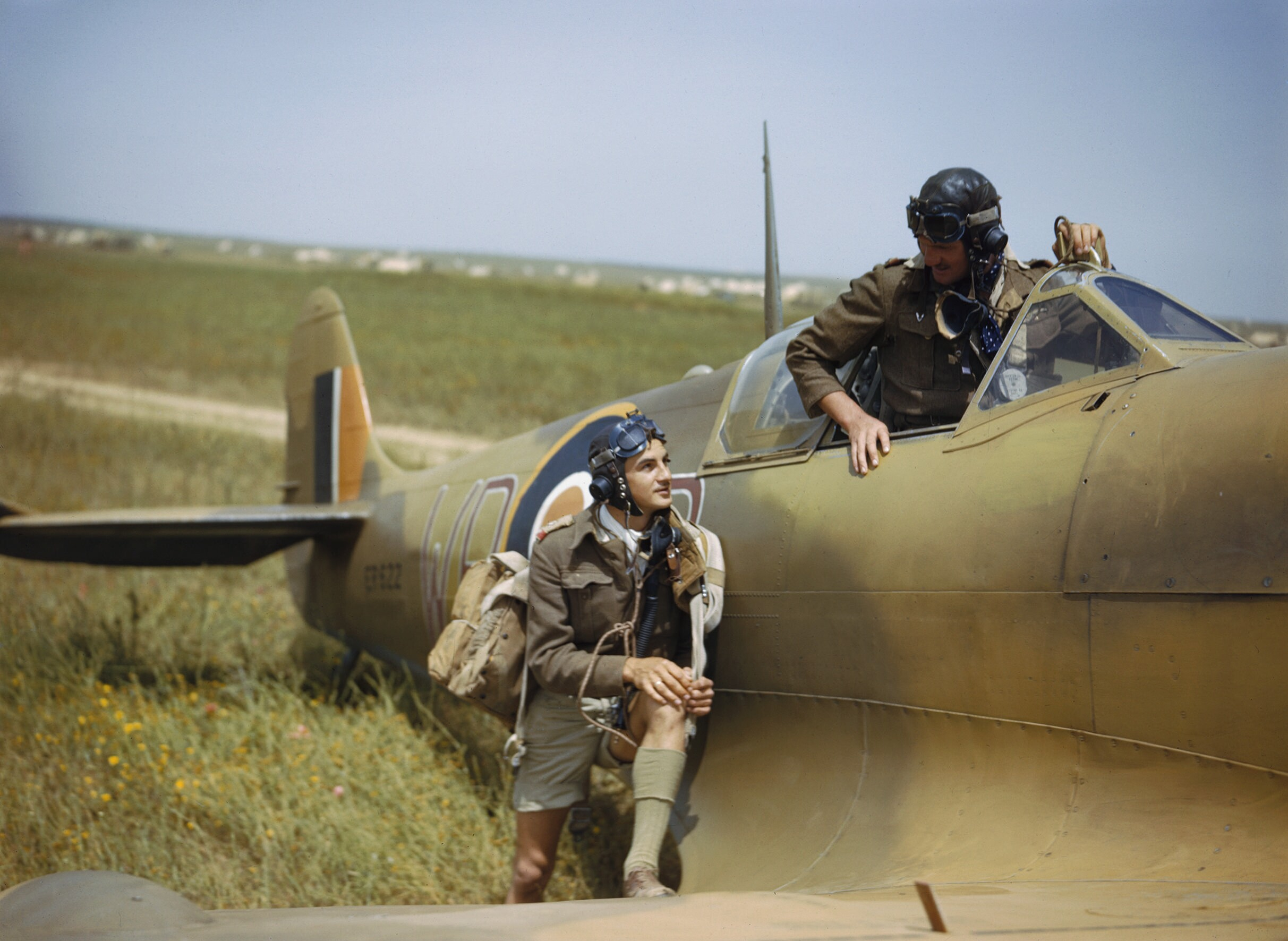 Supermarine Spitfire pilots of No. 40 Squadron, South African Air Force, at Gabes in Tunisia, April 1943. The Supermarine Spitfire pilot of ER622, No 40 Squadron, South African Air Force confers with his 'No 2' after landing at Gabes.